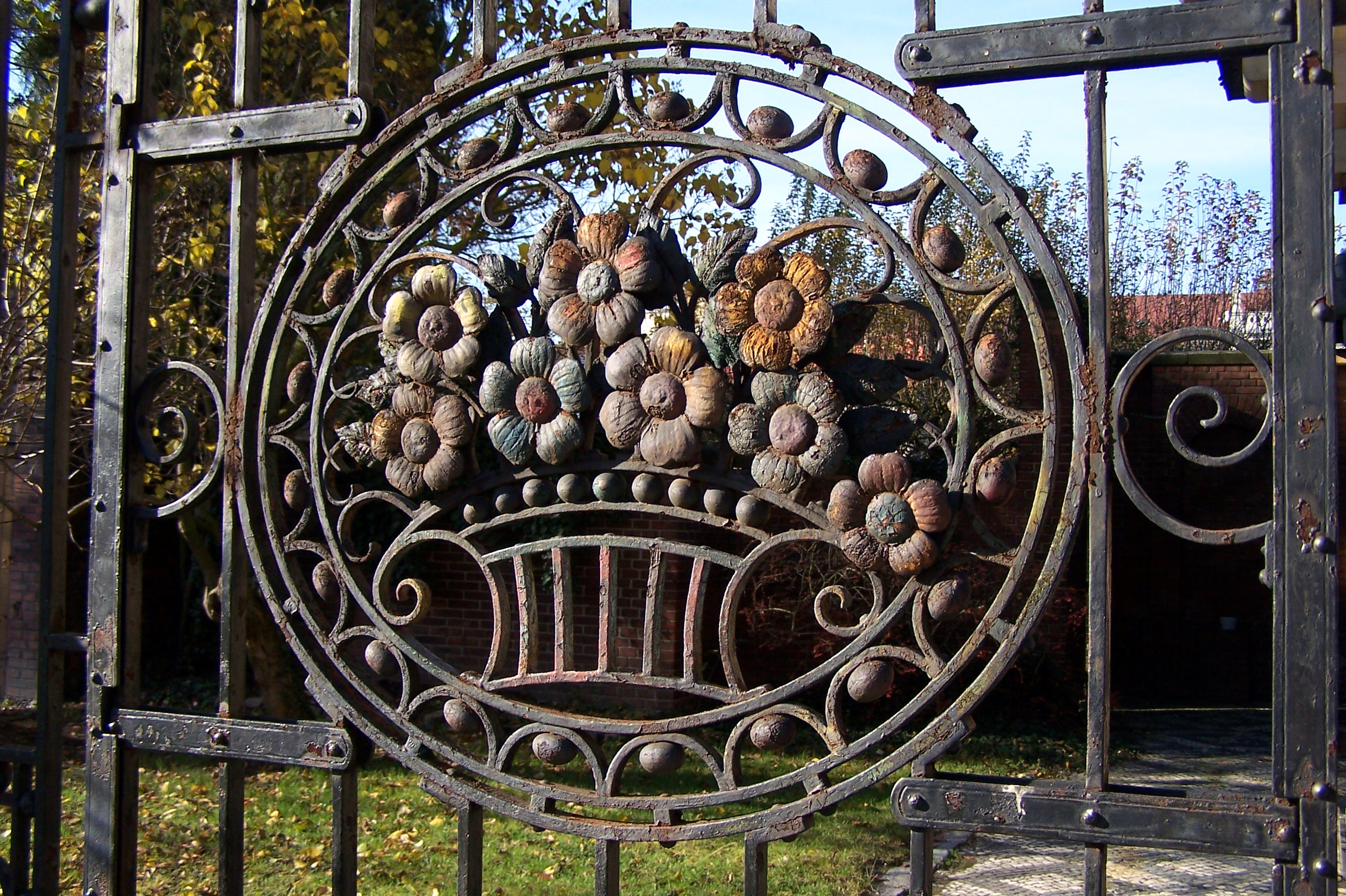 Vila Kouřimka in Poděbrady was designed by Josef Fanta.